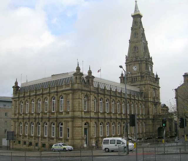 Town Hall, Halifax, West Yorkshire, England.